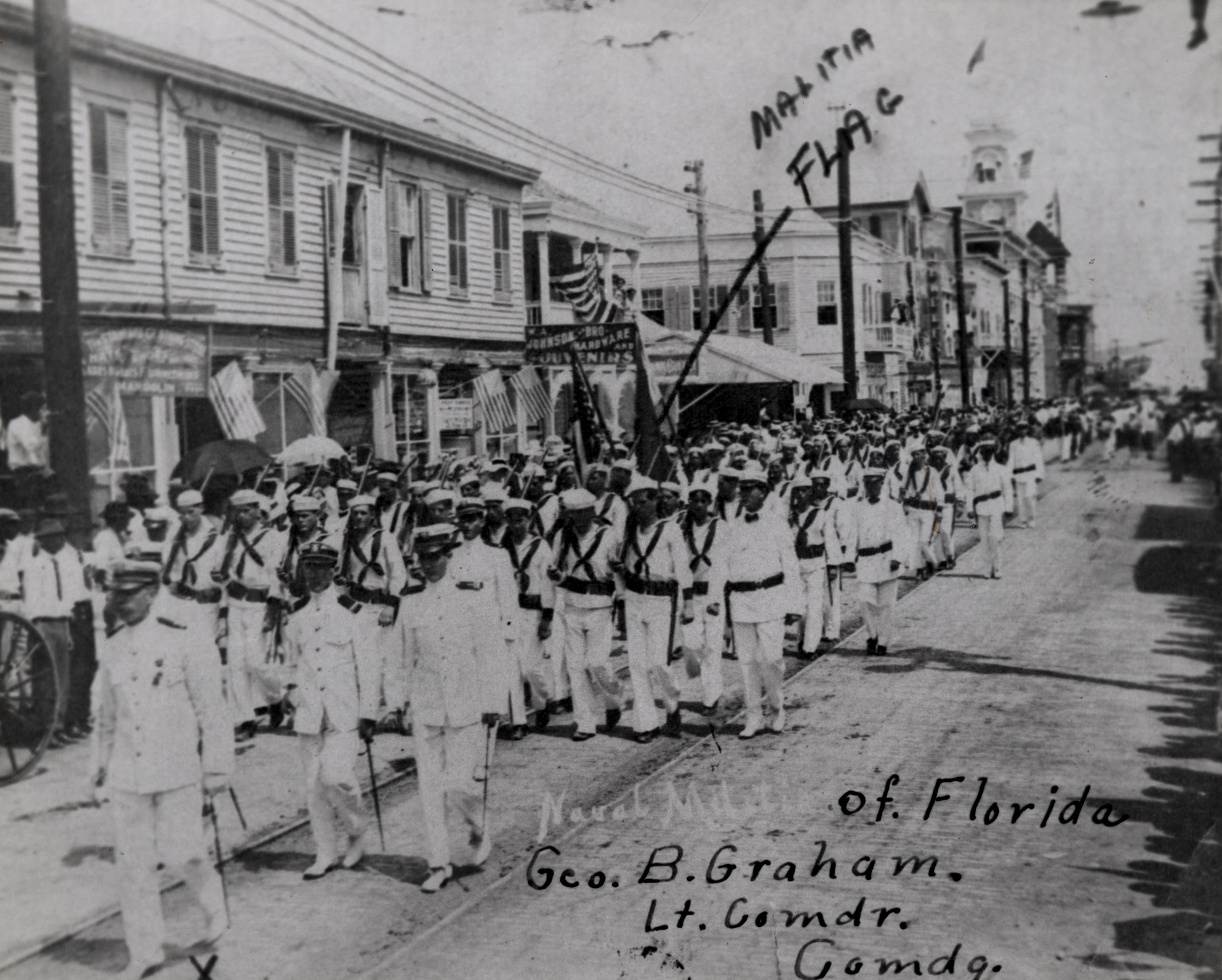 Naval Militia of Florida inthe 100 block of Duval Street for the First Train on January 22, 1912. Photo from the Monroe County Library Collection.